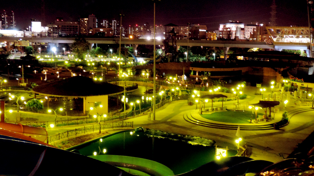 This is the pic of AppuGhar Gurugram in night